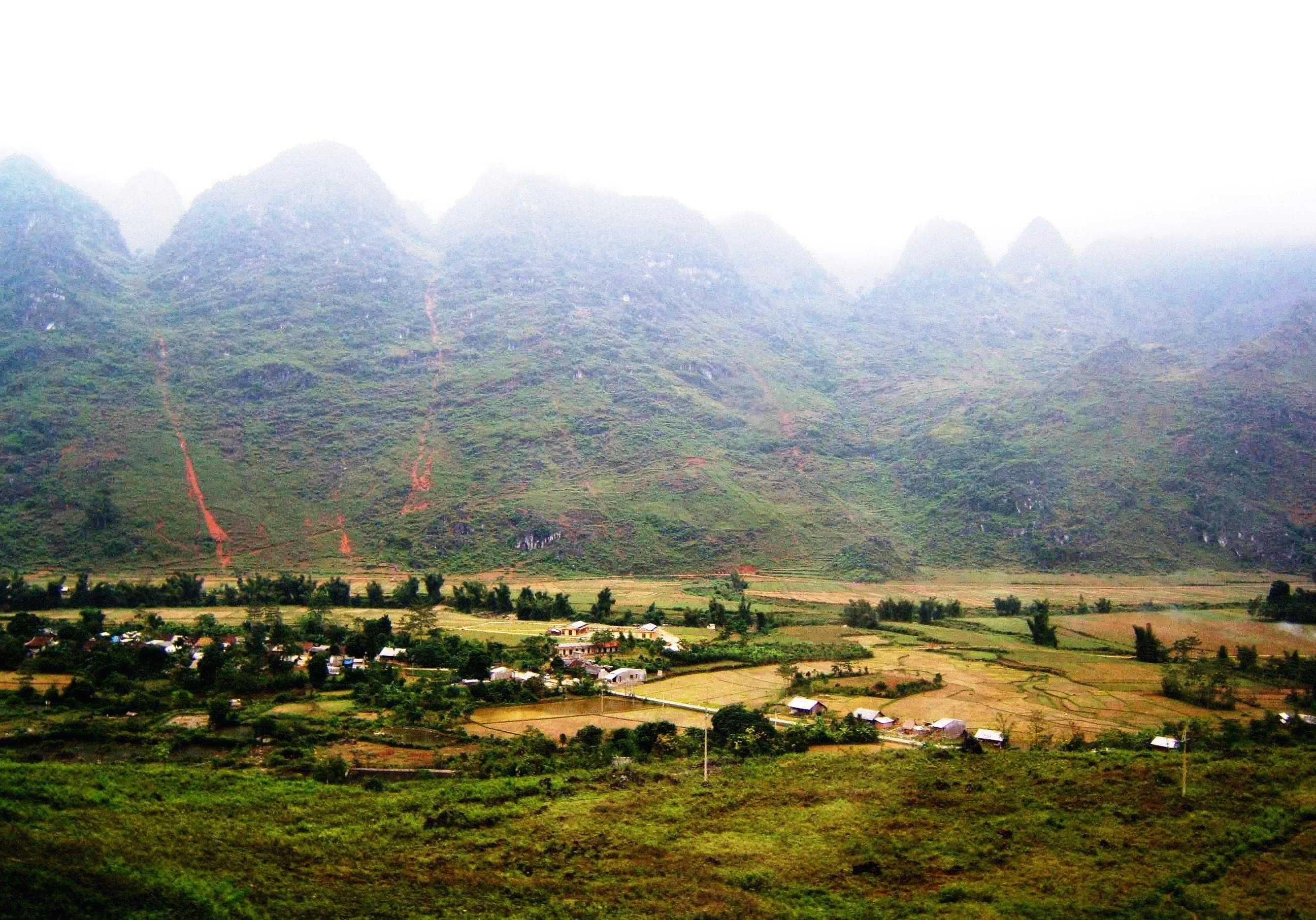 A part of Đông Hà commune, Quản Bạ district, Hà Giang province, with the Highway 4C.